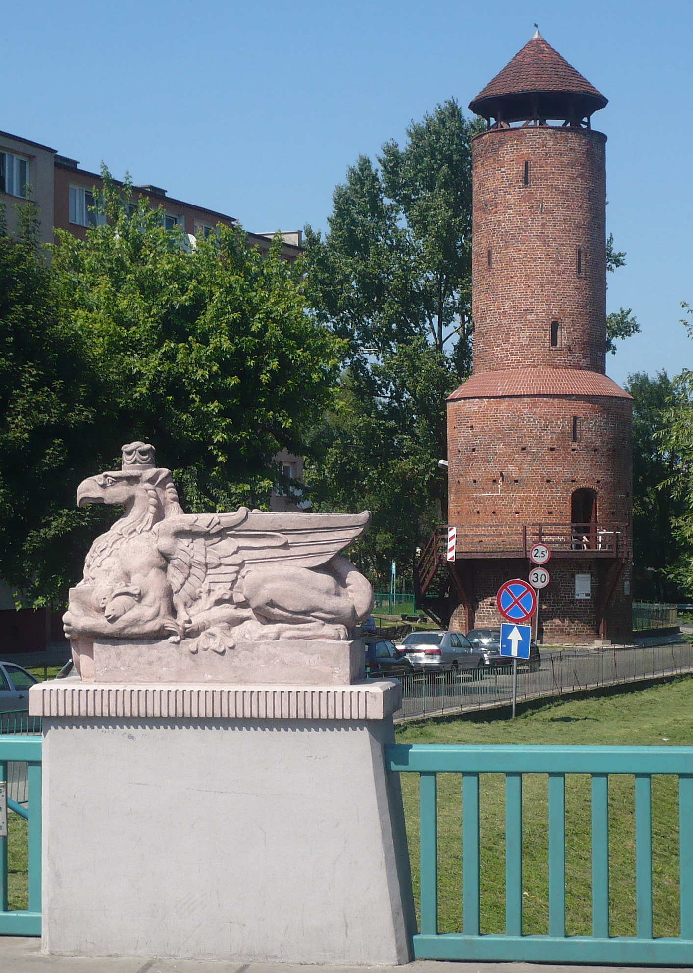 Griffin and Powder Tower in Gryfice, Poland